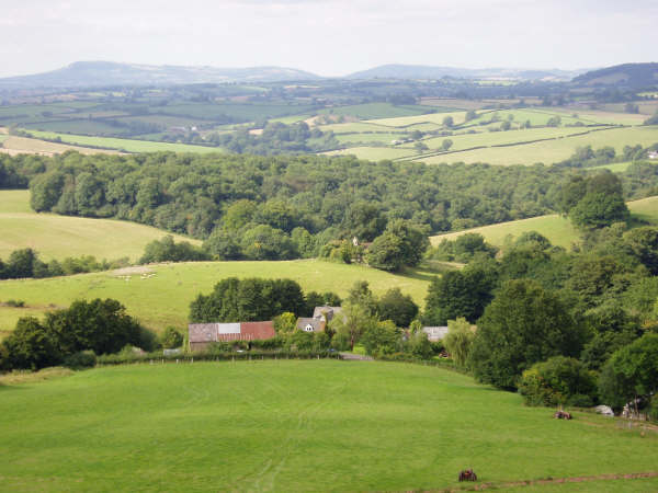 Looking north over Kilgwrrwg House, Newchurch, Monmouthshire, Wales.